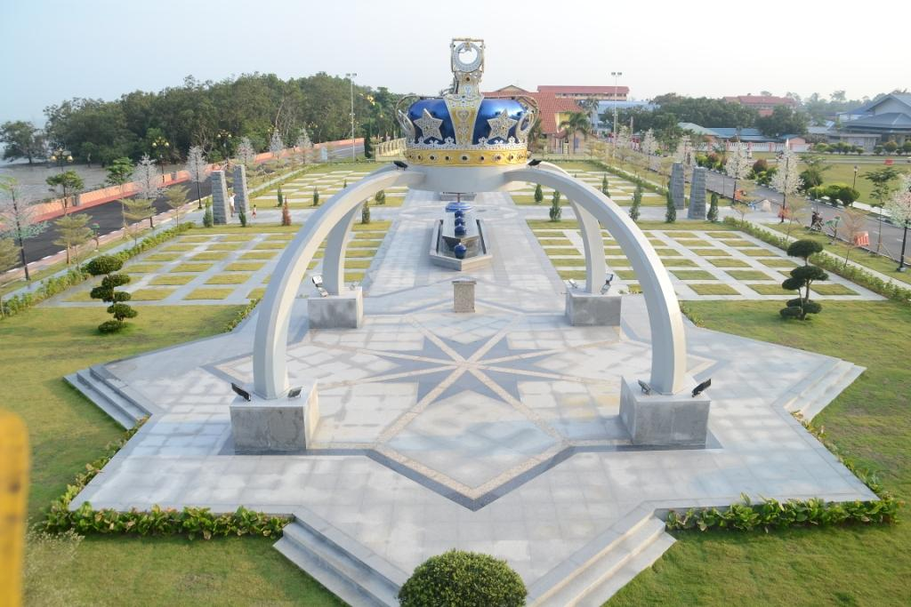 Laman Diraja Pontian